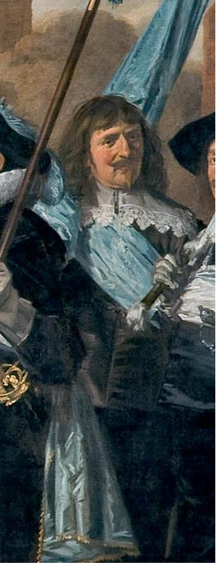 Portrait of Dirck Dicx in The officers and non-commissioned officers of the Saint George Civic guard in Haarlem in 1639, detail